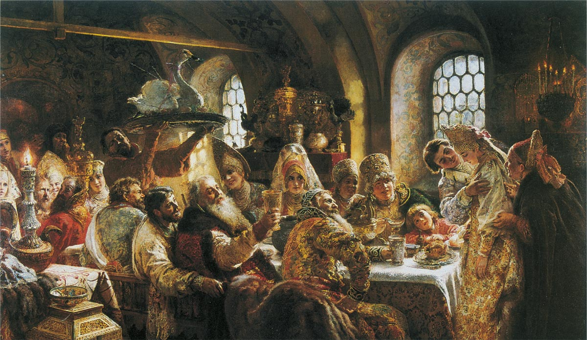 The Boyars' Wedding